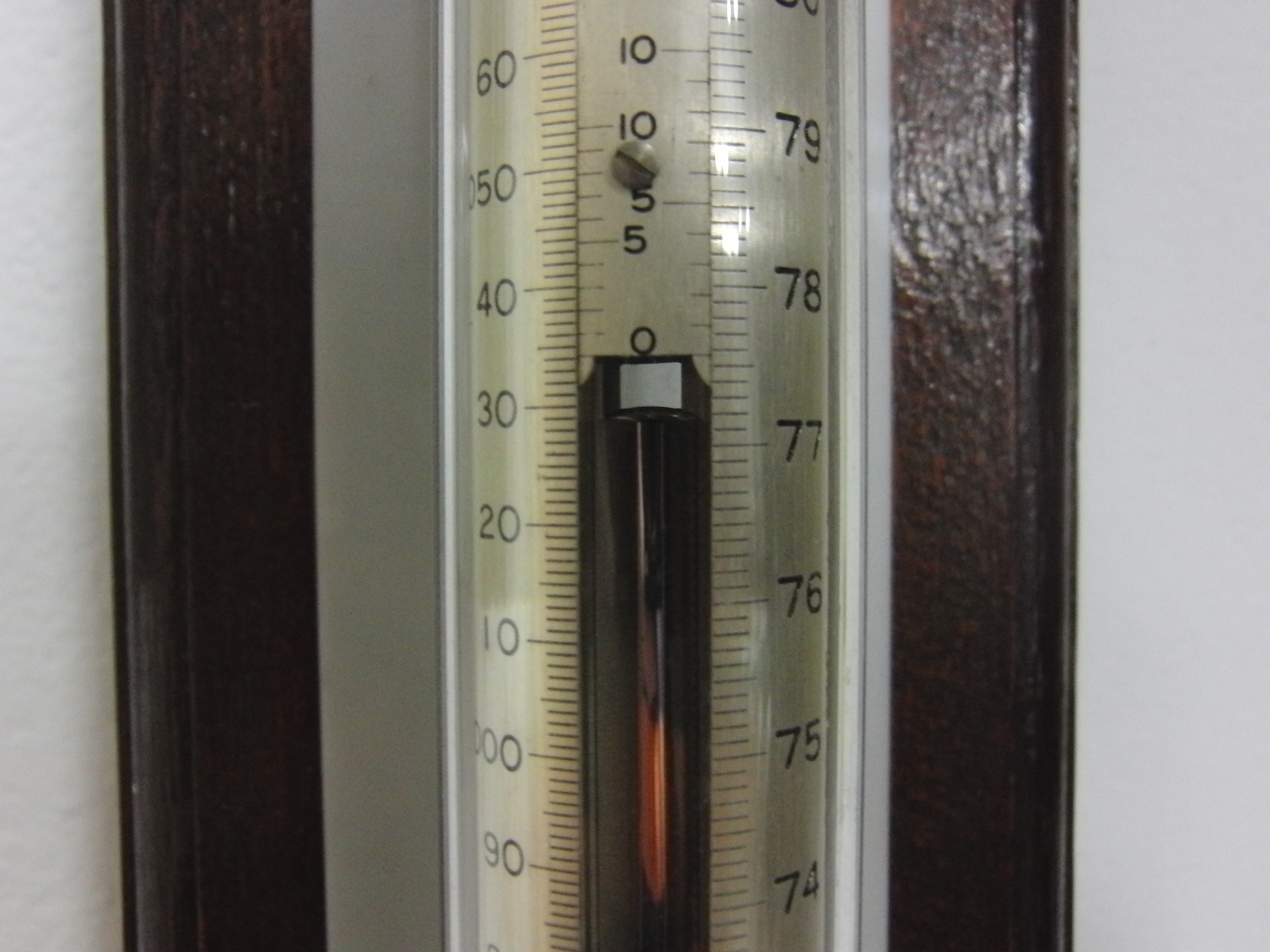 Mercury Barometer